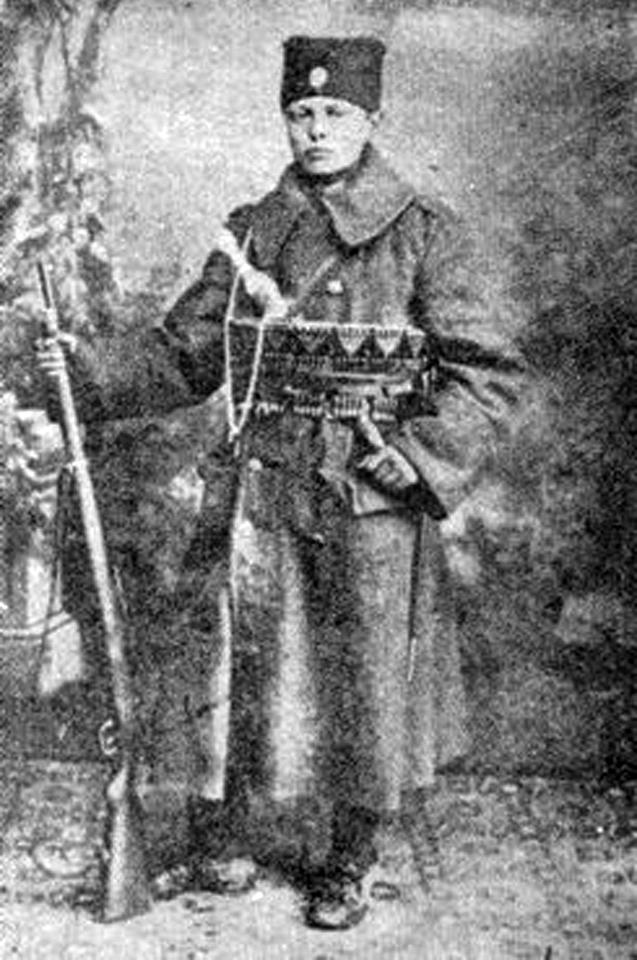 Serbian revolutionary, writer and film director